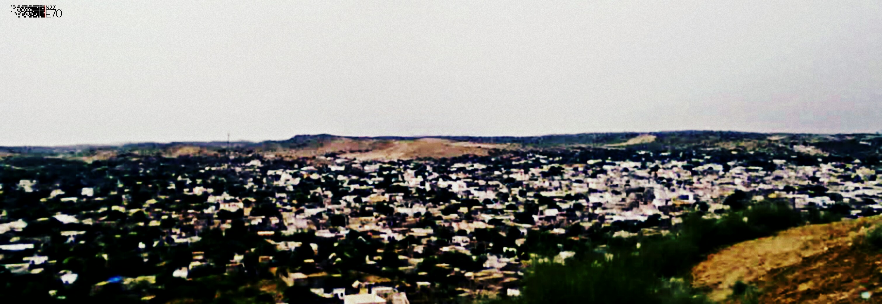 View of City in Tharparkar district